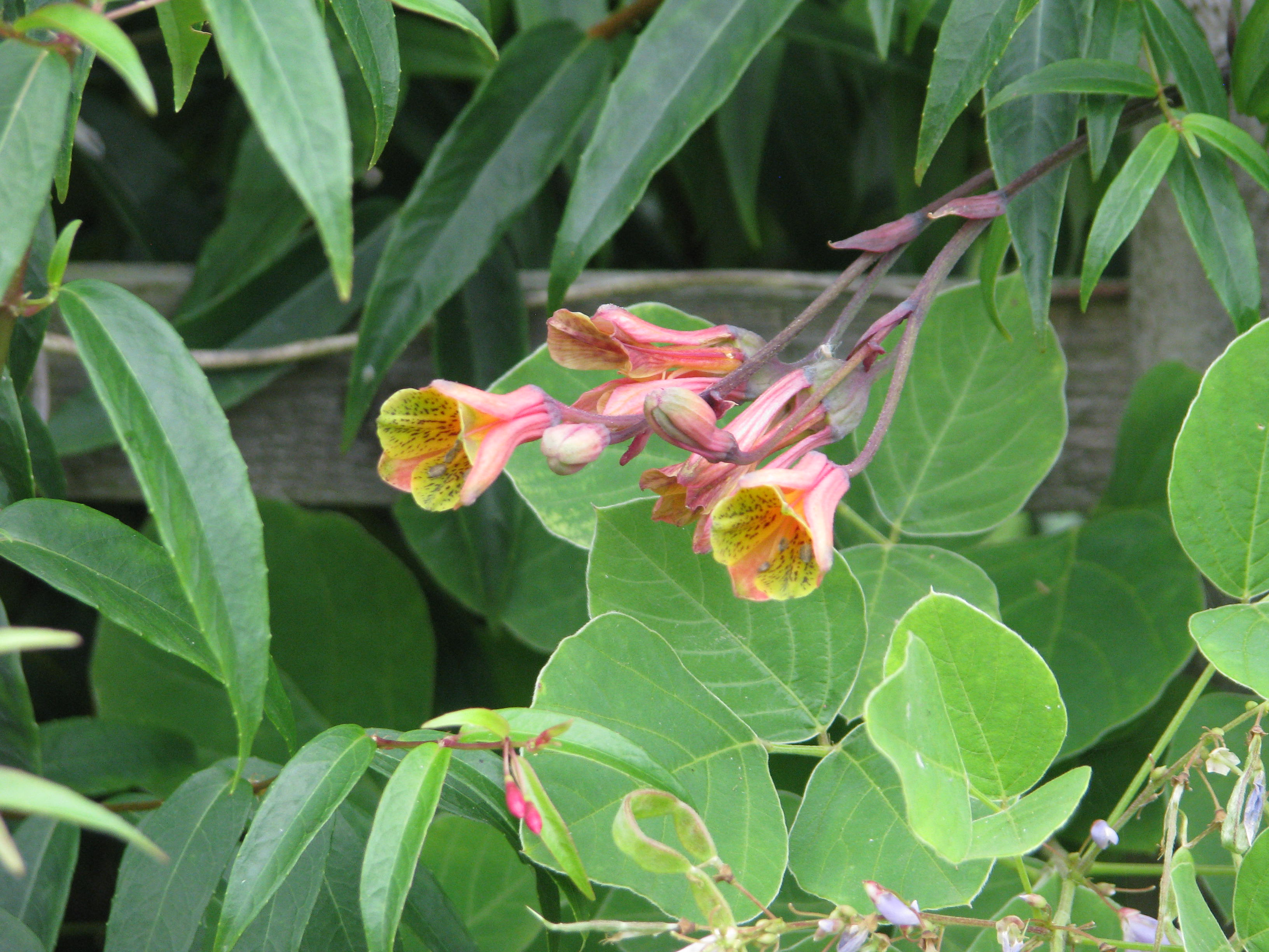 Looks the same as my edulis to me. Damn